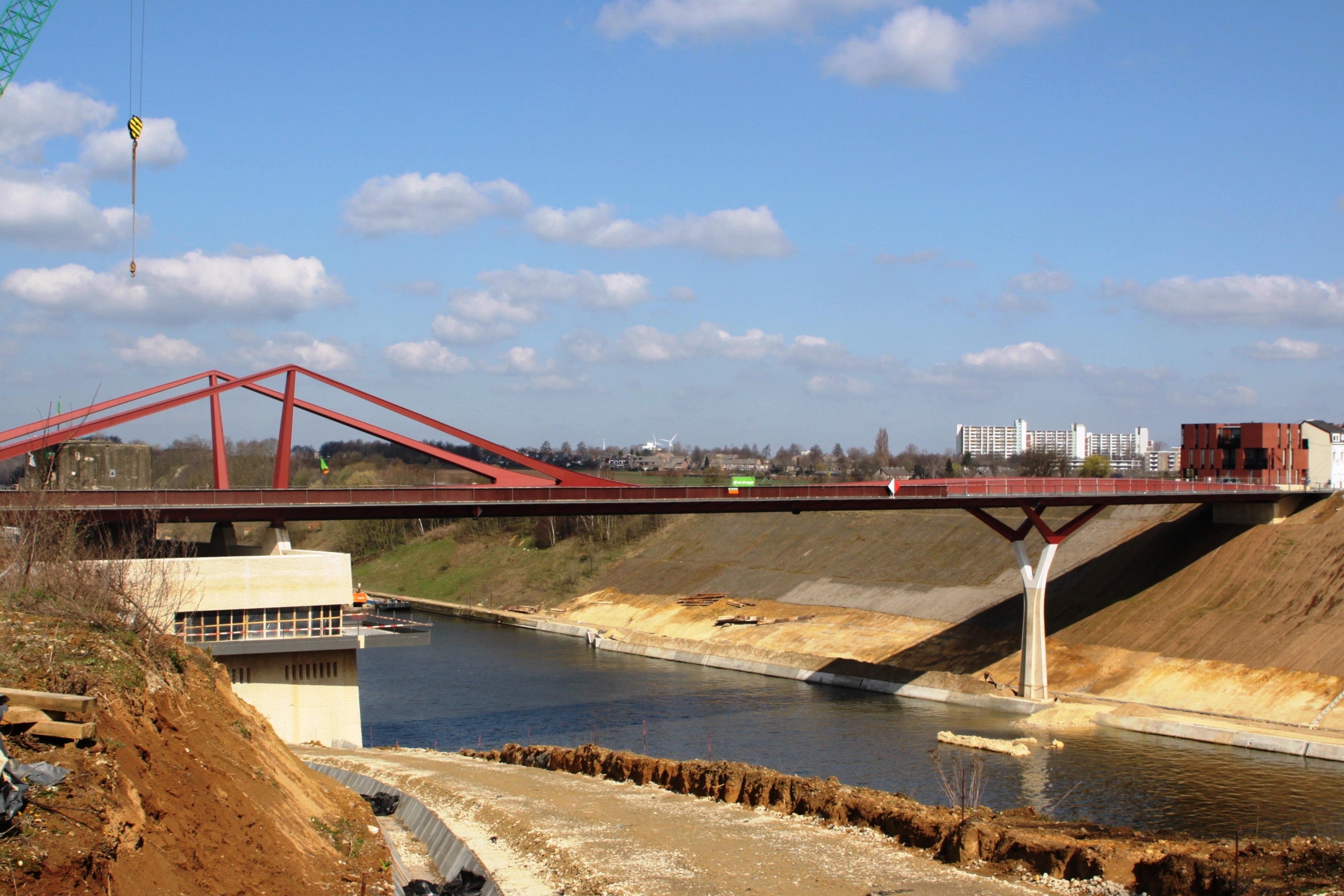 Bridge in Vroenhoven in March 2011